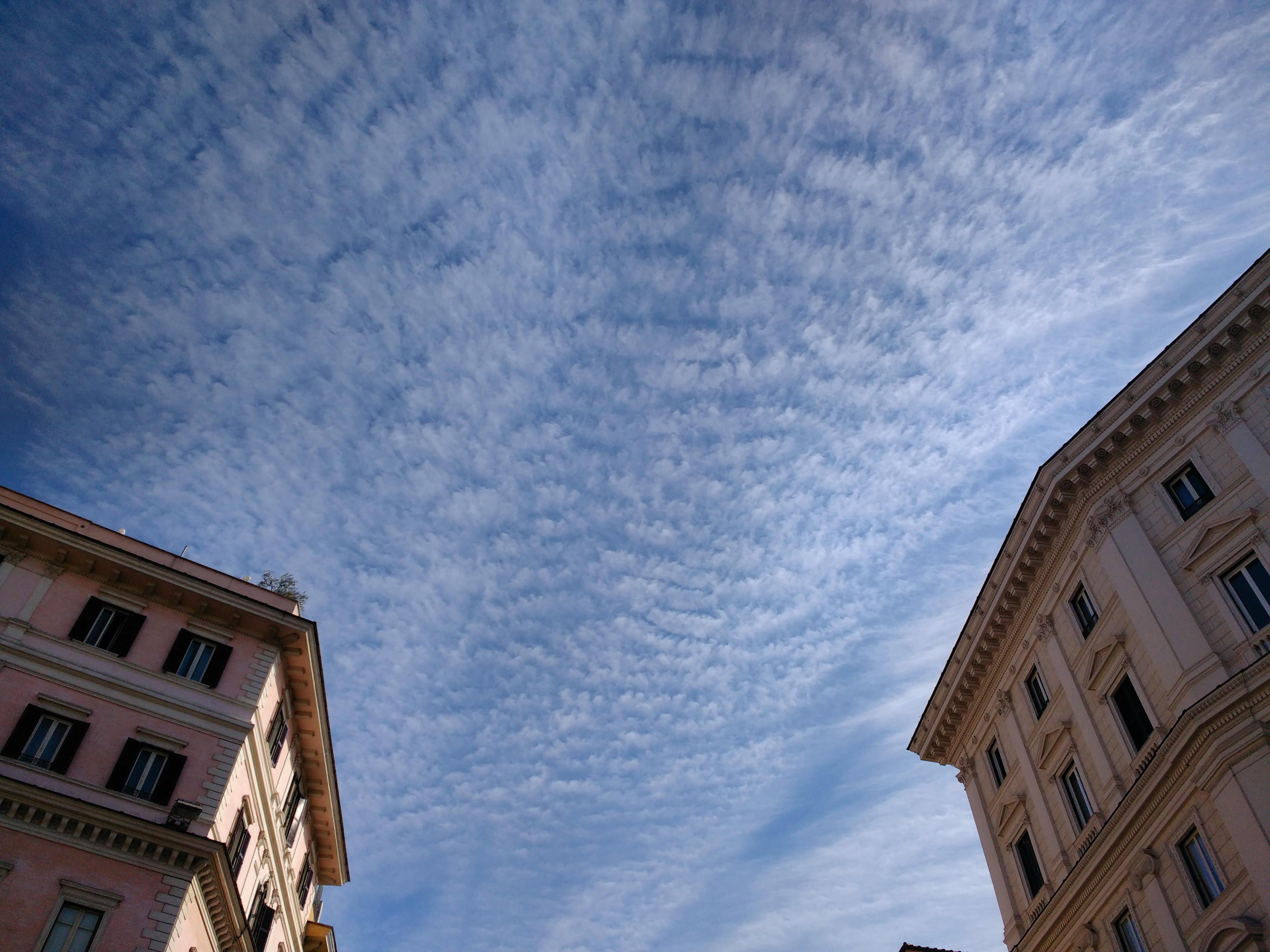 An extended layer of Cirrocumulus castellanus undulatus (center) and Cirrocumulus floccus (on the sides).